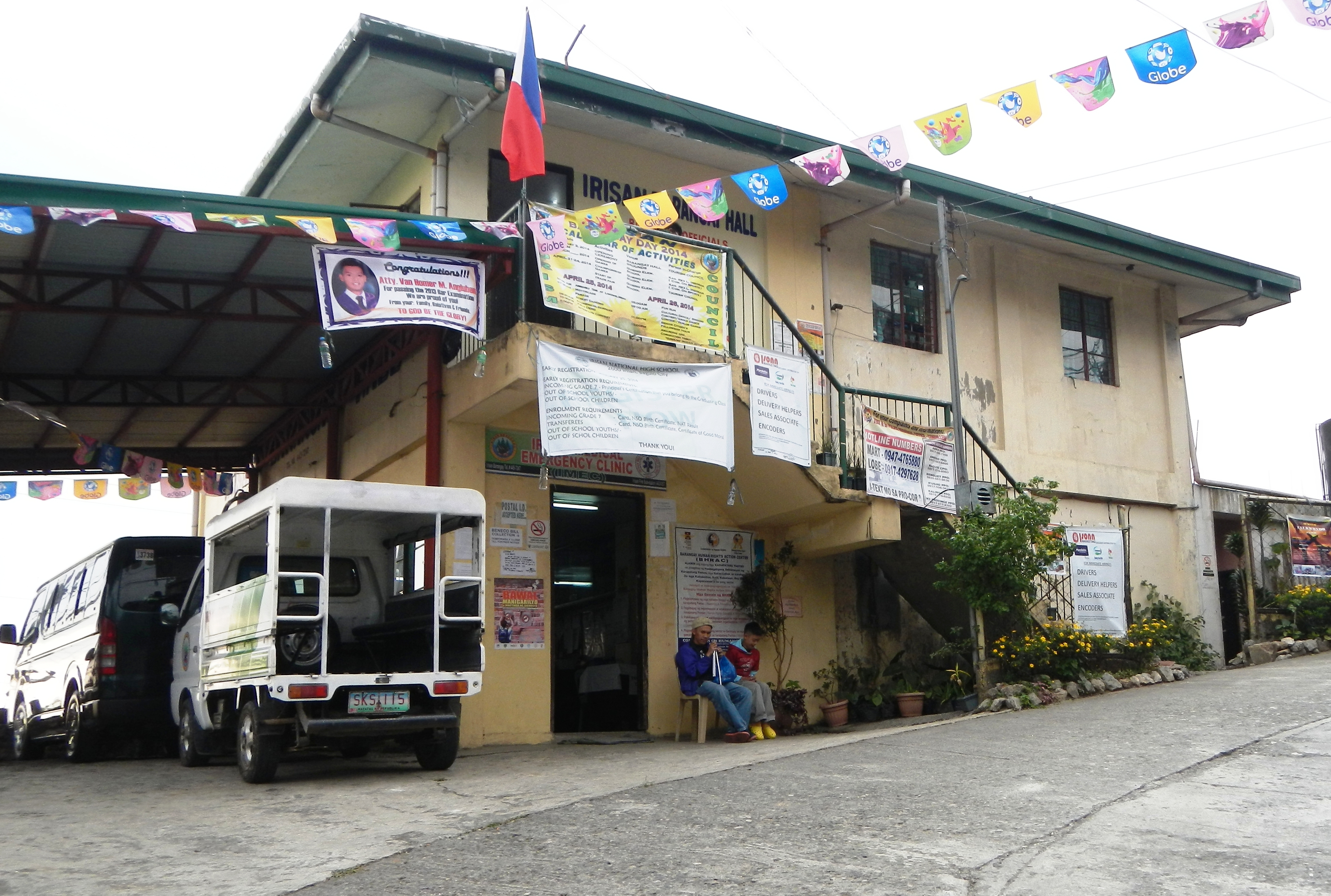 Irisan, Baguio [1] (Hon. Thomas K. Dumalti, Punong Barangay, or Barangay Captain, Ways and Means, Barangay Irisan Hall (Baguio City) Complex, Compound, Purok 7, Naguilian Road, Quirino Highway, Irisan, Baguio).